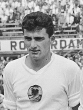 Ali Mema in 1964.